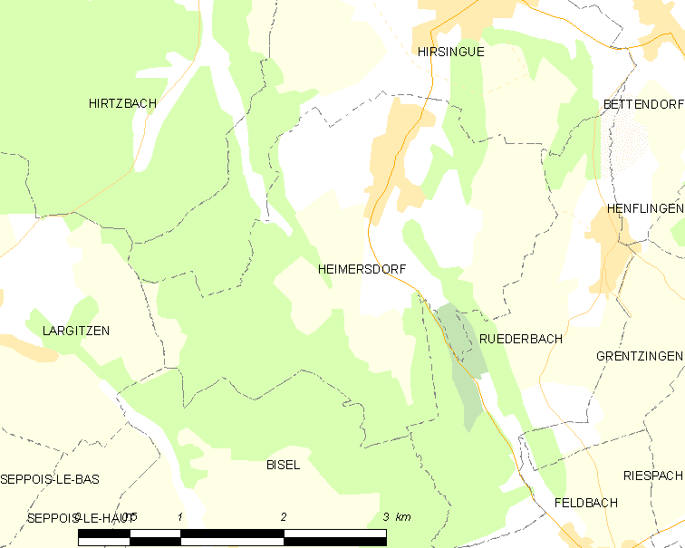 Map of French municipality